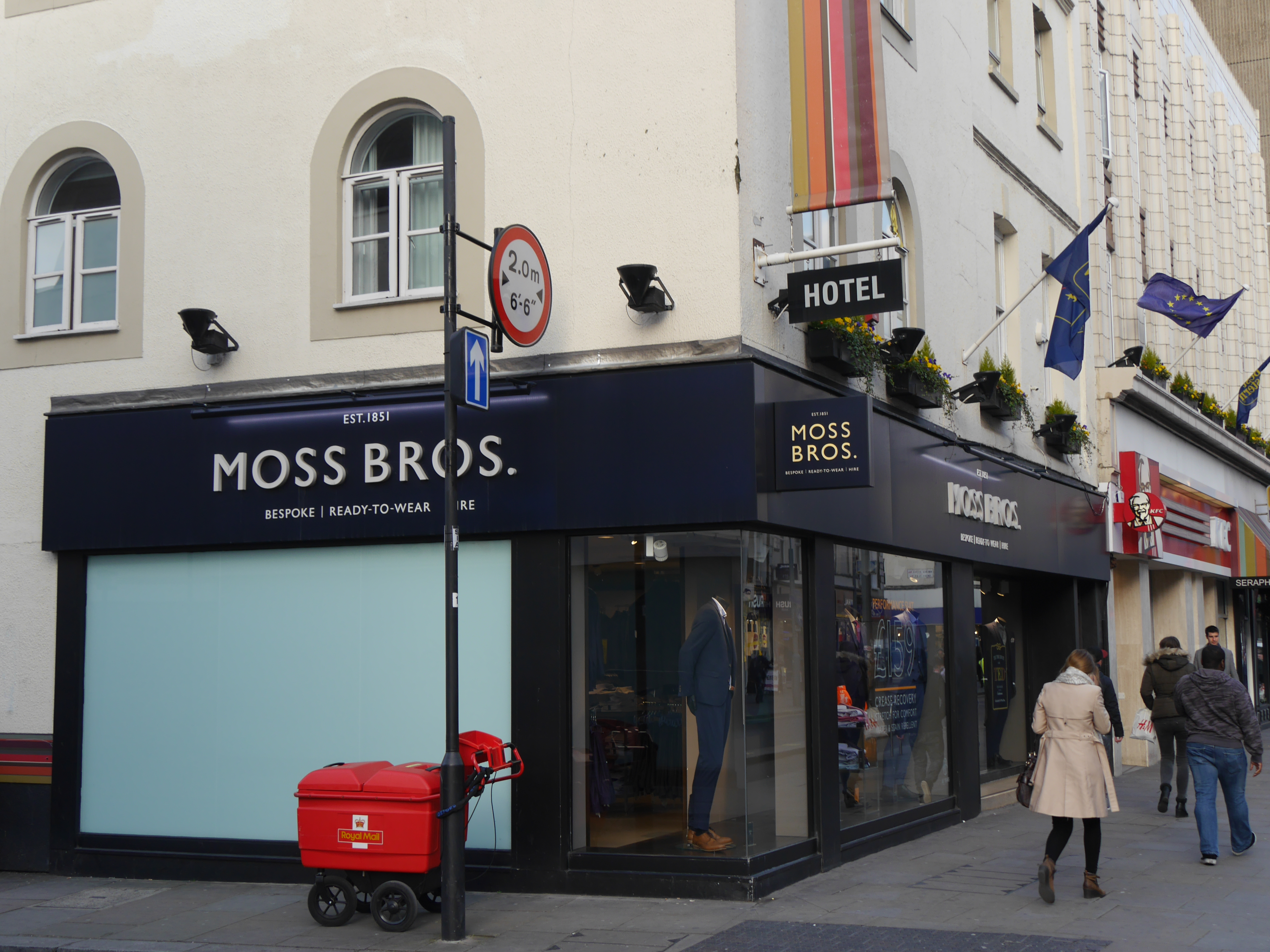 King Street, Hammersmith